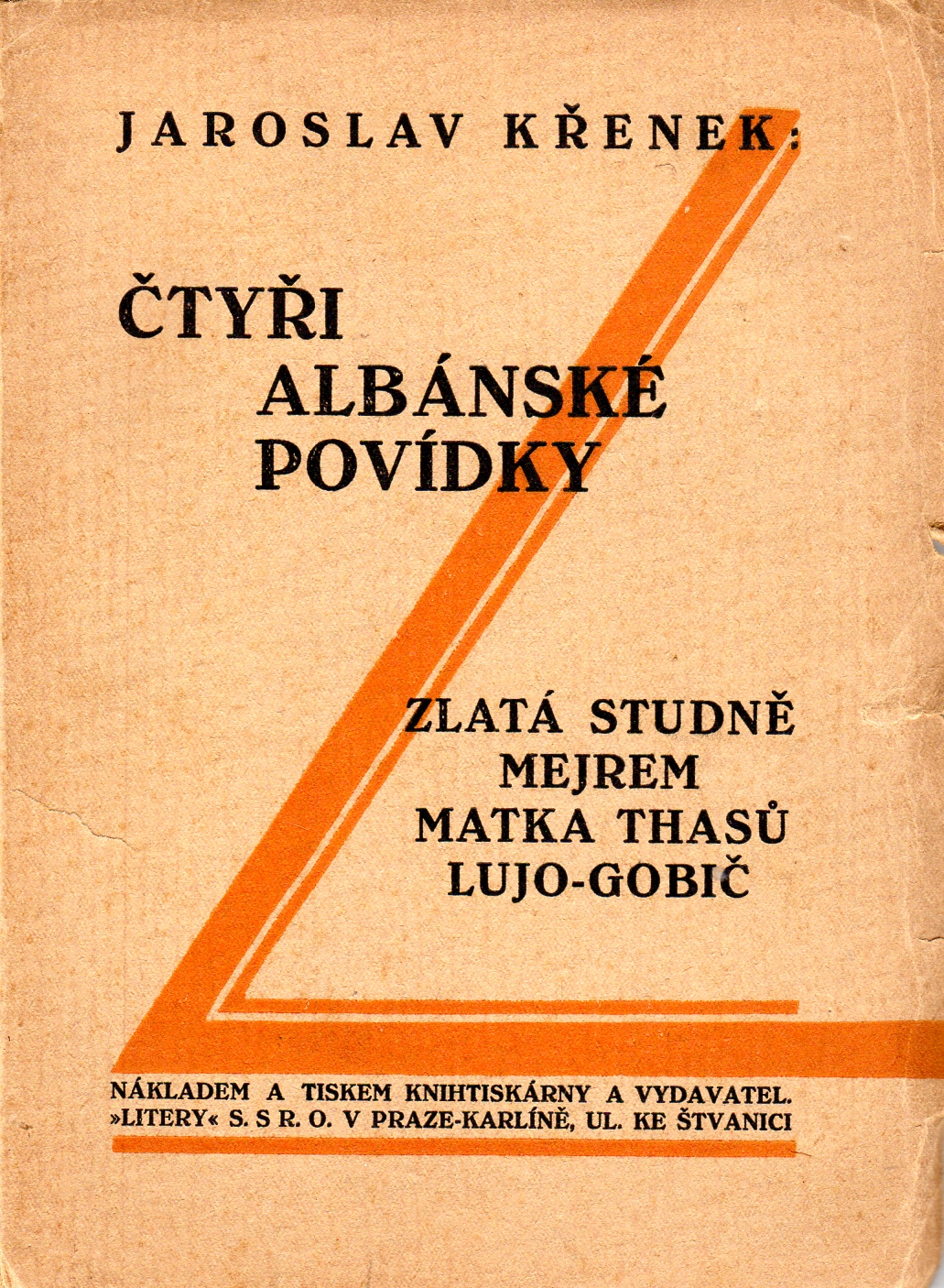 Cover page of the book Čtyři albánské povídky (lit. Four stories from Albania) by Jaroslav Křenek